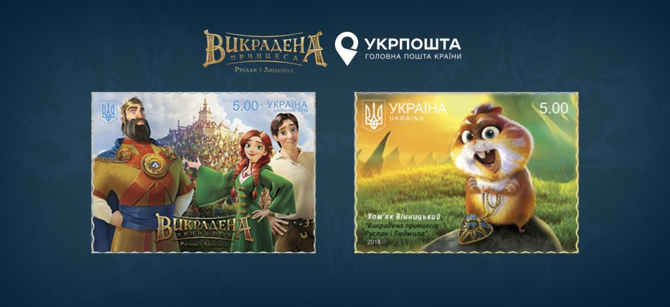 2018 Ukraine Stamp